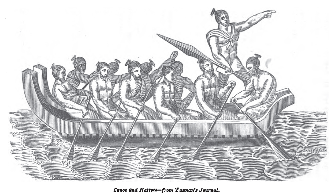 One of the first depictions of a Maori canoe from Abel Tasman's journal.